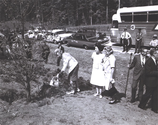 Lady Bird Johnson and an unidentified woman look on as Muriel Humphrey, wife of Vice President Hubert Humphrey shovels dirt around a dogwood tree planted along I-95 in Virginia, during her "Landscape-Landmark Tour" into Virginia on May 11, 1965.